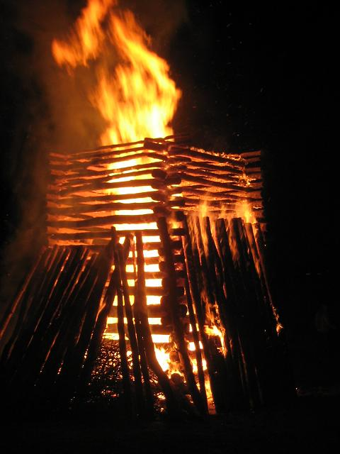 "Easter-fire" (german: Osterfeuer) in Gröben, part of Ludwigsfelde in the Landkreis (rural district) Teltow-Fläming, Brandenburg. "Osterfeuer" is an old custom in some parts of germany.